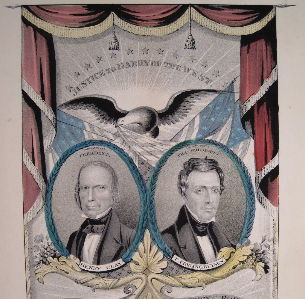 1844 Grand National Whig banner.